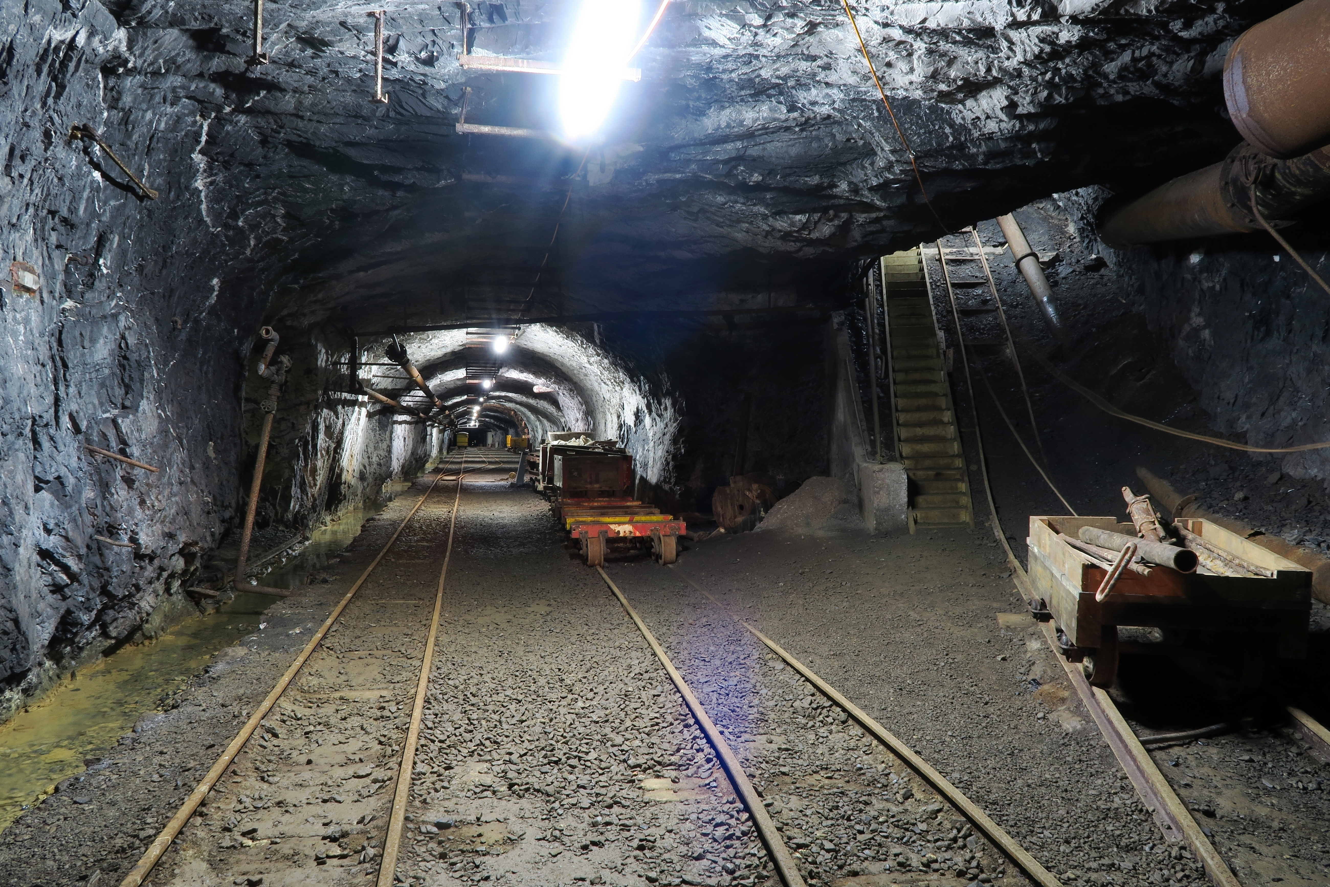 The station in the mountain and on the right the brake incline we came down. Switzerland, May 31, 2016. (21/35)